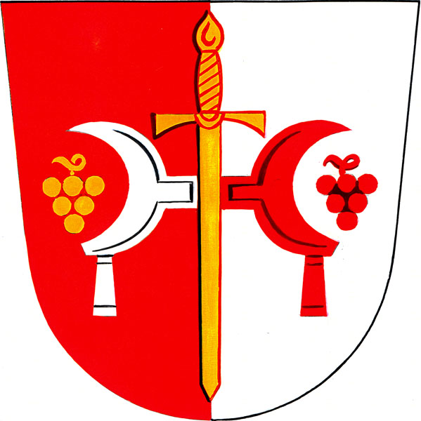 Municipal coat of arms of Syrovín village, Hodonín District, Czech Republic.